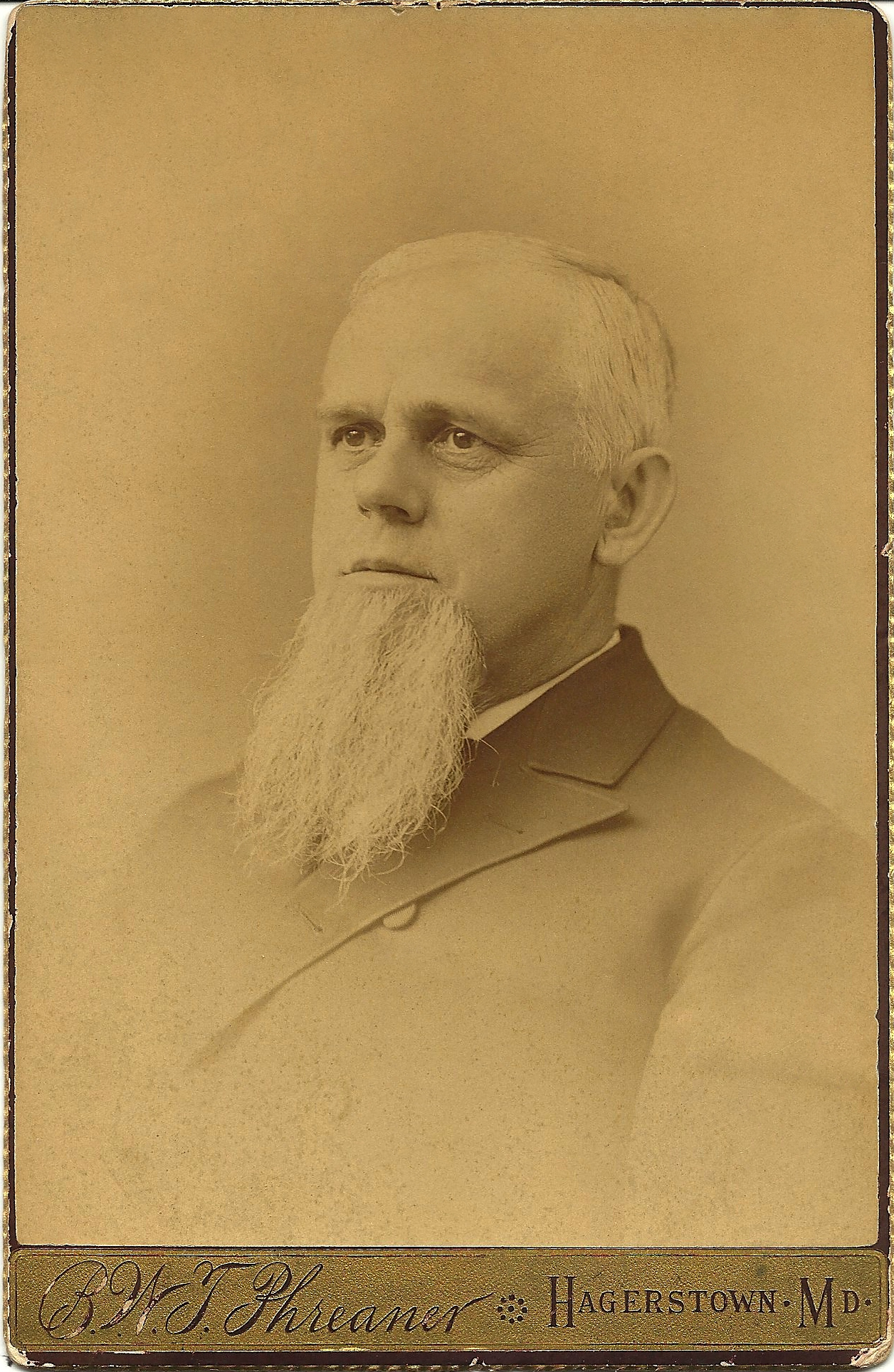 Cabinet card of Rev. Cornelius L. Keedy, one of the presidents of Kee Mar College